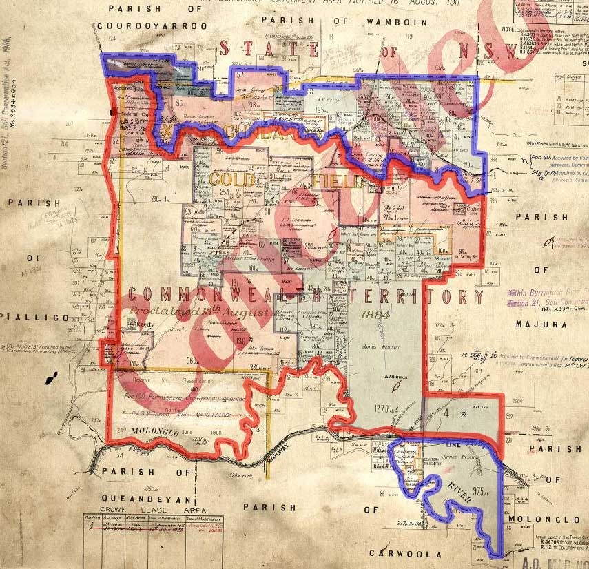 Map of the Parish of Amungula, County of Murray, New South Wales. Boundary of the parish since 1909 Parts of the parish which were transferred to the Commonwealth for the ACT in 1909